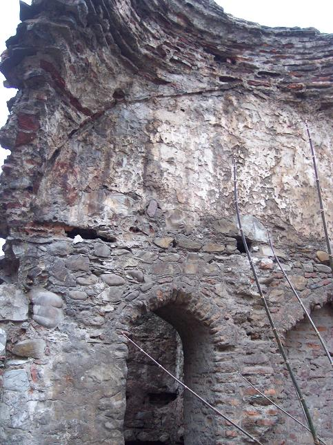 The old Turkish baths in Montana, Bulgaria.